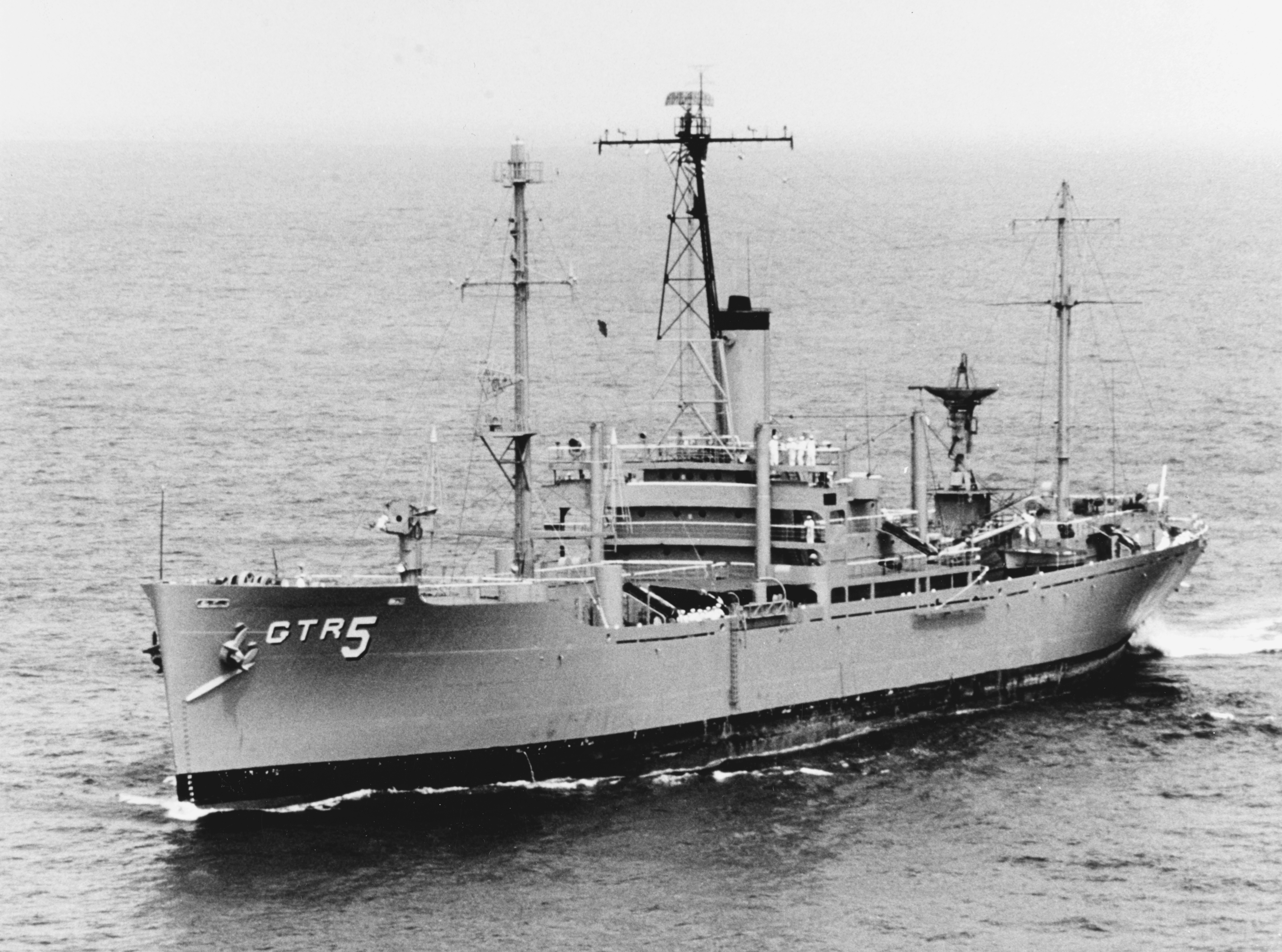 The U.S. Navy electronic reconnaissance gathering ship USS Liberty (AGTR-5) underway in Chesapeake Bay on 29 July 1967, upon her return from the Mediterranean Sea. She had been attacked and seriously damaged by Israeli air and surface forces while operating off the Sinai Peninsula on 8 June 1967, during the "Six-Day War", and was subsequently repaired at Malta.